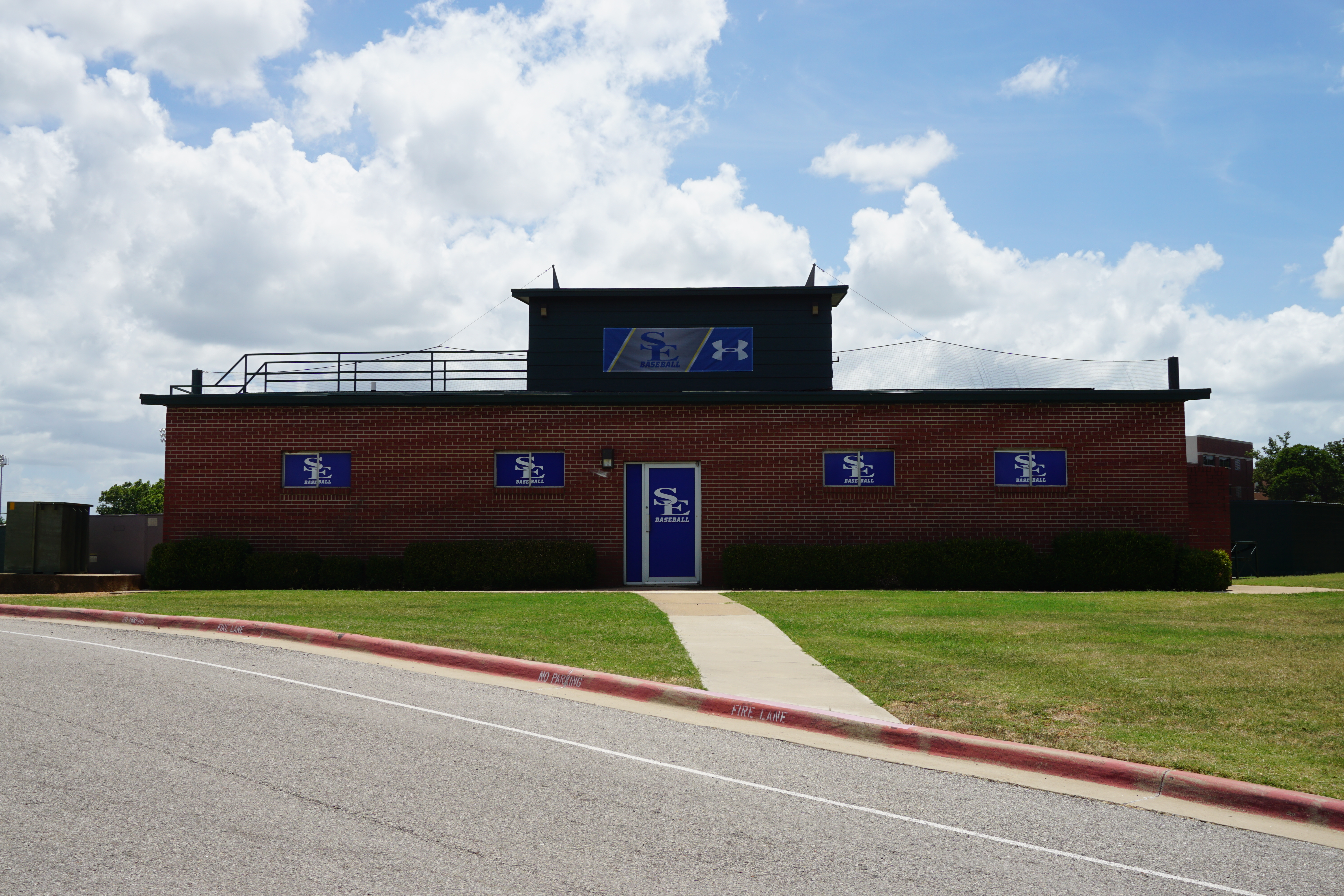 The Baseball Field on the campus of Southeastern Oklahoma State University in Durant, Oklahoma (United States).